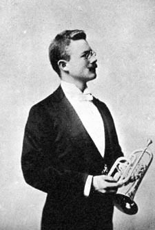 uploaded by Logank, in public domain Source: Library and Archives Canada/Music